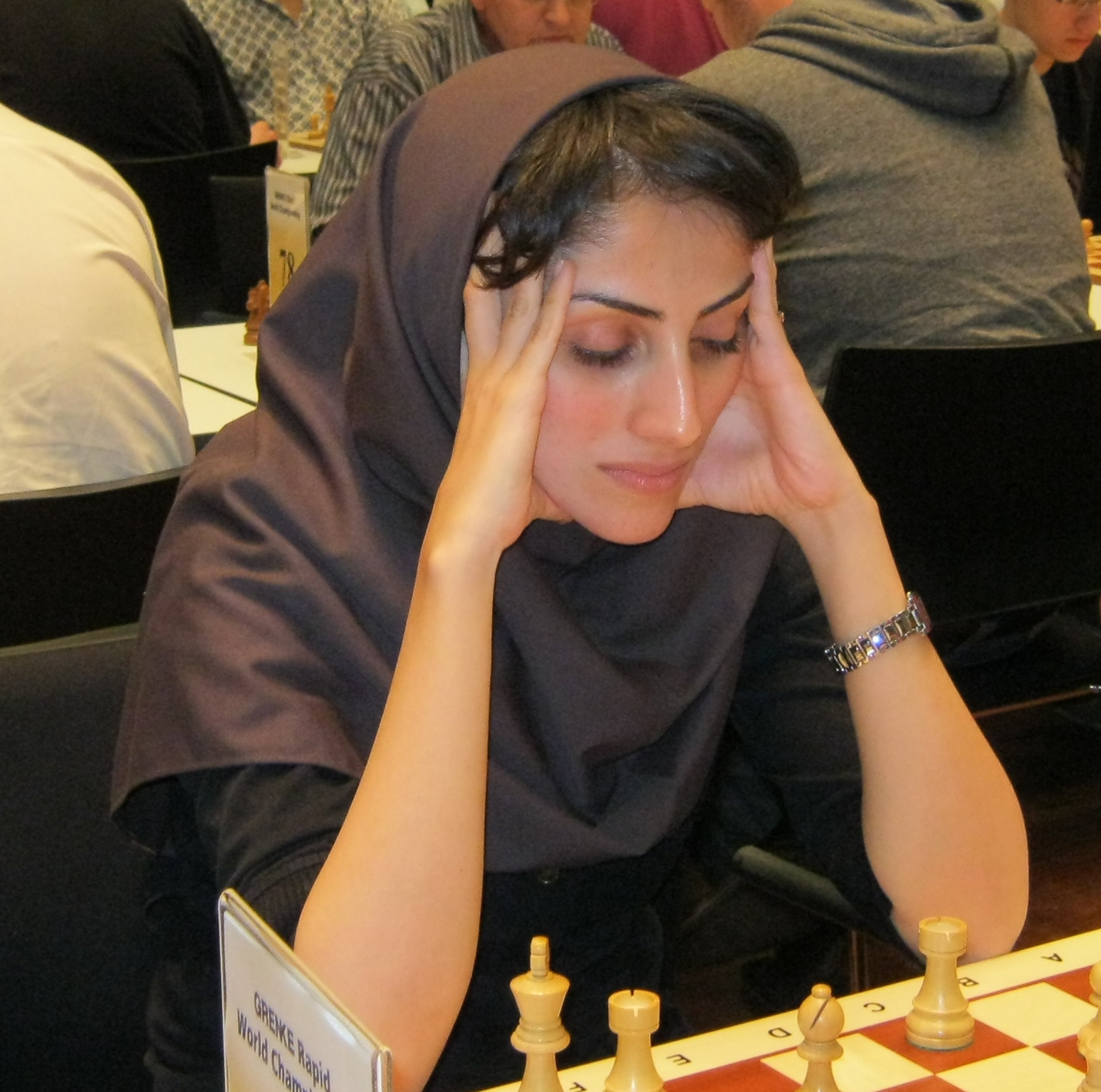 Shayesteh Ghader Pour Taleghani, chess player (woman international master) from Iran